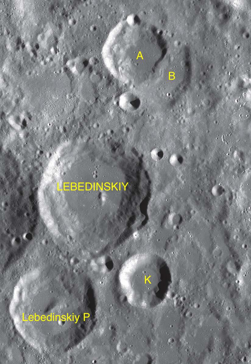 Part of the chart LAC-69 used for the presentation